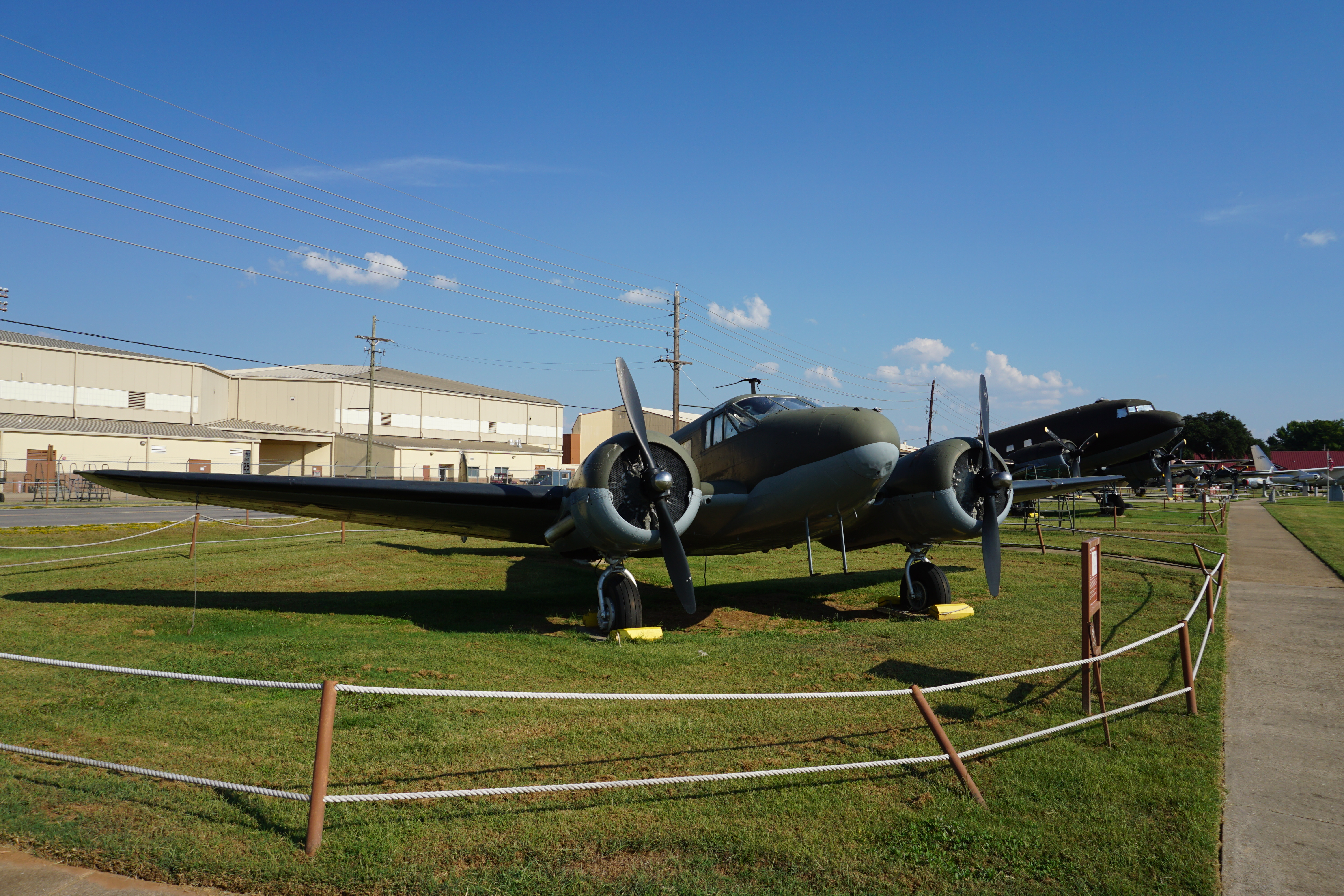 A Beechcraft C-45F Expeditor on display at the Barksdale Global Power Museum at Barksdale Air Force Base near Bossier City, Louisiana (United States).